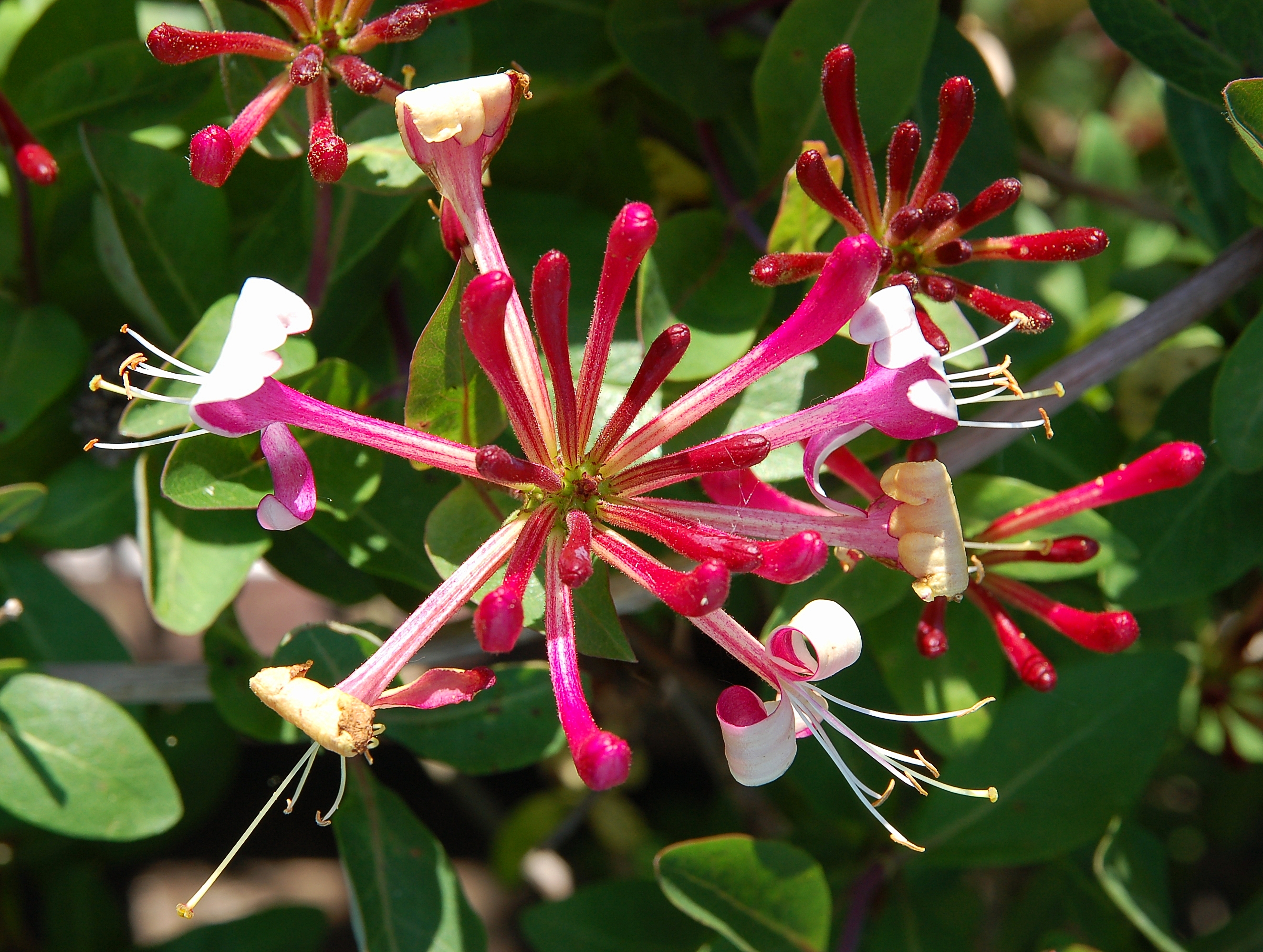 Lonicera periclymenum in Belgium (Hamois).